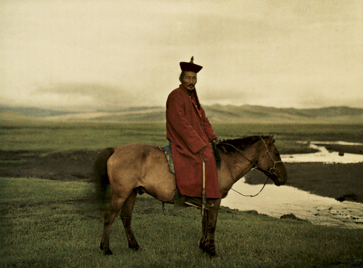 Buddhist lama in Mongolia near Ulaanbaatar, probably Jalkhanz Khutagt Sodnomyn Damdinbazar. Autochrome from Albert Kahn's Archives de la planète.